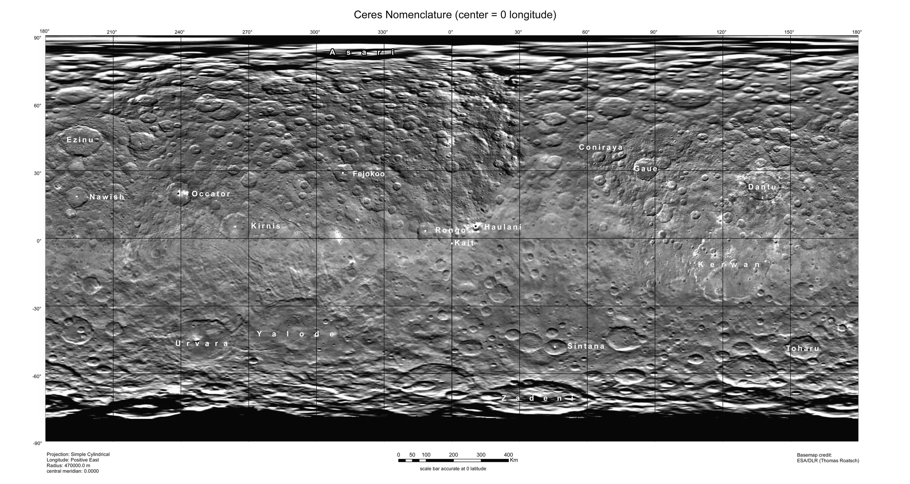 PIA19625: Ceres Map With Crater Names -- August 2015 This map of Ceres, constructed from data collected by NASA's Dawn spacecraft, shows the dwarf planet's surface with features that have been named as of August 14, 2015. This is a simple cylindrical projection centered on 0 degrees east longitude, created by science team members at the German Aerospace Center (DLR). The most recently named feature is the small crater Kait, after the Hattic goddess of grain. It is a mere 0.2 miles (0.4 kilometers) across. A full list of crater names on Ceres is available at Dawn's mission is managed by JPL for NASA's Science Mission Directorate in Washington. Dawn is a project of the directorate's Discovery Program, managed by NASA's Marshall Space Flight Center in Huntsville, Alabama. UCLA is responsible for overall Dawn mission science. Orbital ATK, Inc., in Dulles, Virginia, designed and built the spacecraft. The German Aerospace Center, the Max Planck Institute for Solar System Research, the Italian Space Agency and the Italian National Astrophysical Institute are international partners on the mission team. For a complete list of acknowledgments, For more information about the Dawn mission, visit